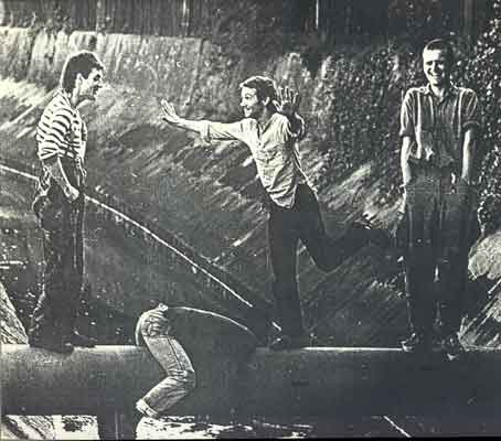 The Waltons: (L-R)Tony Walton, O.B. Quiet, Hank Torso and Dave Cheesybits